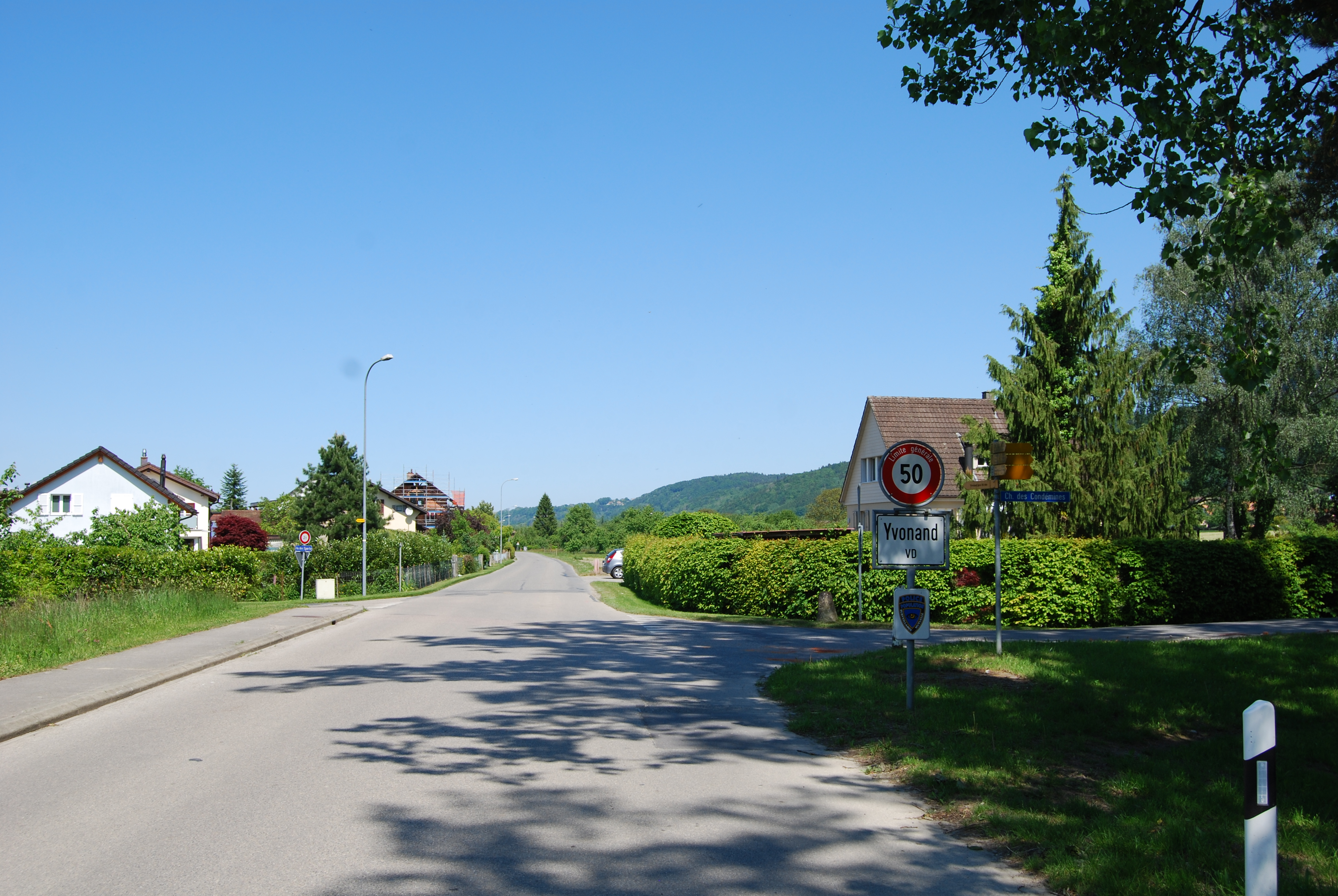 Yvonand, canton of Vaud, SwitzerlandEsperanto: Yvonand, Kantono Vaŭdo, Svislando